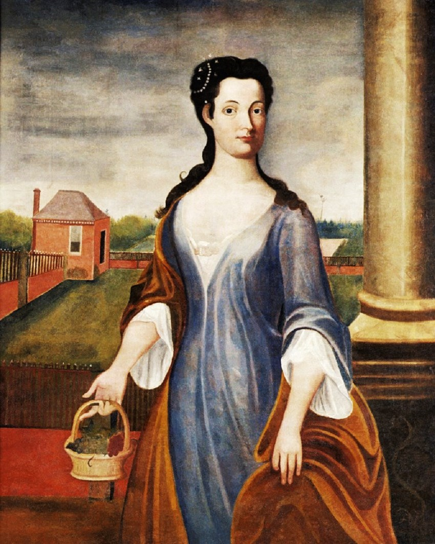 Brick-Walled Yard. 1750s Walled Garden & Grounds at Cleve in Virginia. Anne Byrd of Westover (1725-1757) (Mrs. Charles Carter). attributed to William Dering